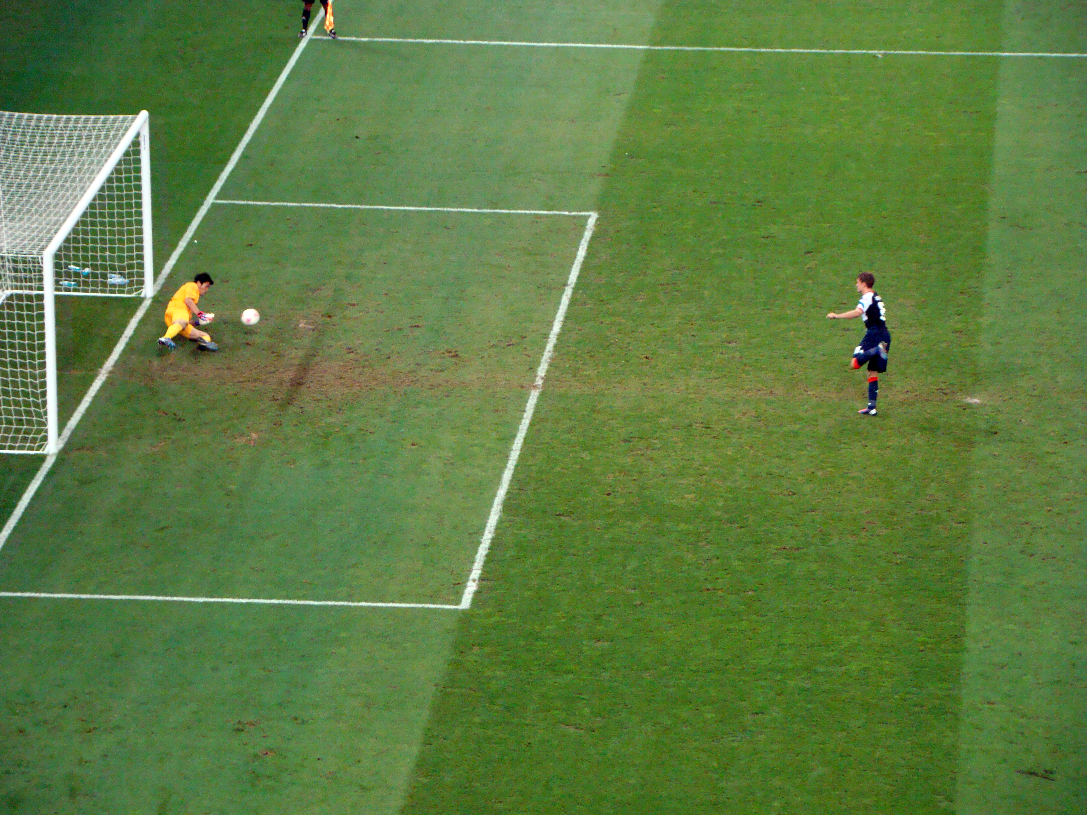 04/08/12 Great Britain v South Korea, Olympic Football, Millennium Stadium, Cardiff, Wales